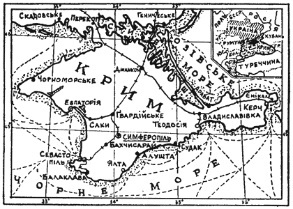 A Ukrainian map of Crimean peninsula.